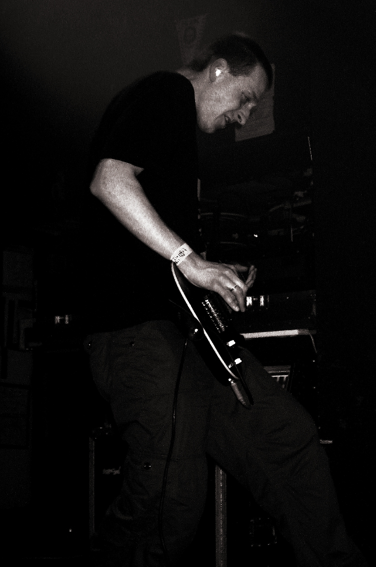 Justin K Broadrick playing as Godflesh in Helsinki, Finland, September 24th 2011.